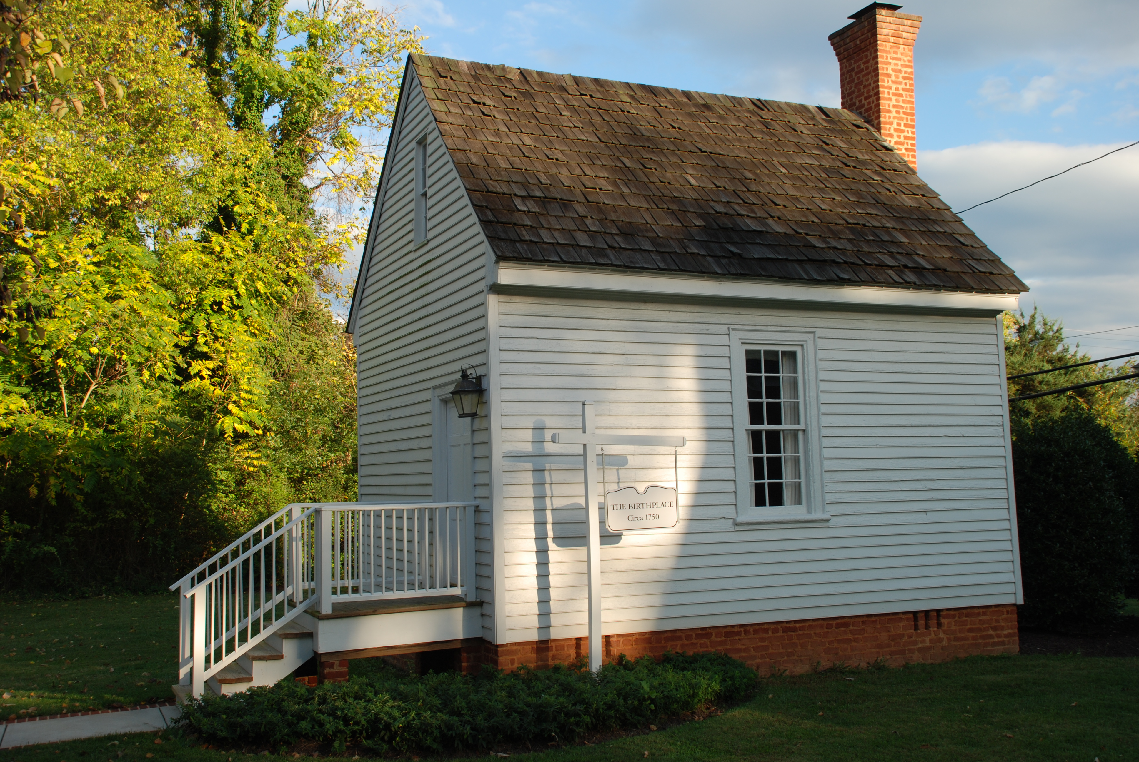 "The Birthplace" at Hampden–Sydney College. Originally located on Slate Hill Plantation, 2 miles north of campus